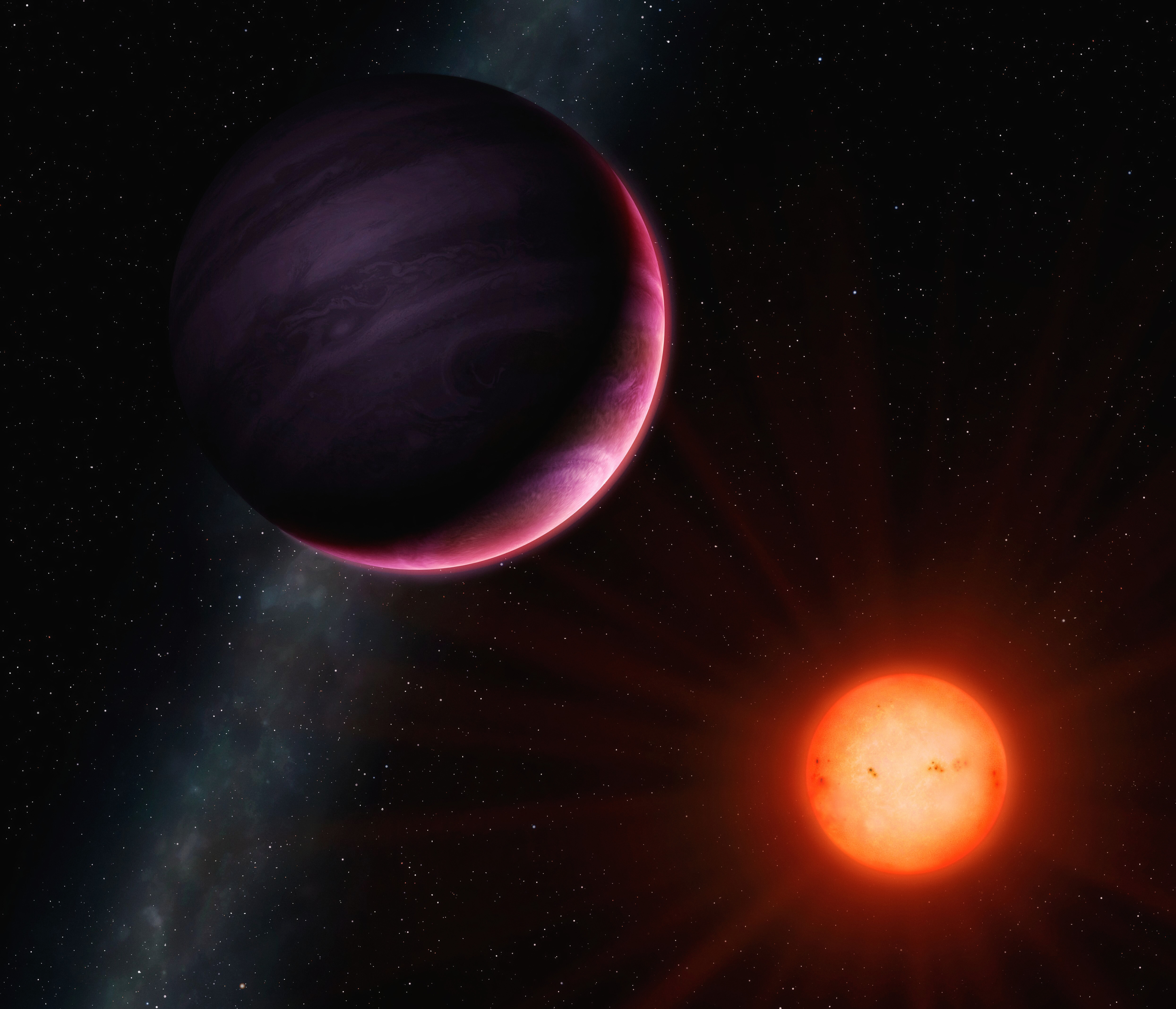 Artist's impression of the planet NGTS-1b, the first to be found using the NGTS system at ESO's Paranal Observatory. This planet is a hot Jupiter, at least as large as the Jupiter in the Solar System, but with around 20% less mass. It is very close to its star– just 3% of the distance between Earth and the Sun – and orbits the star every 2.6 days, meaning a year on NGTS-1b lasts two and a half days.